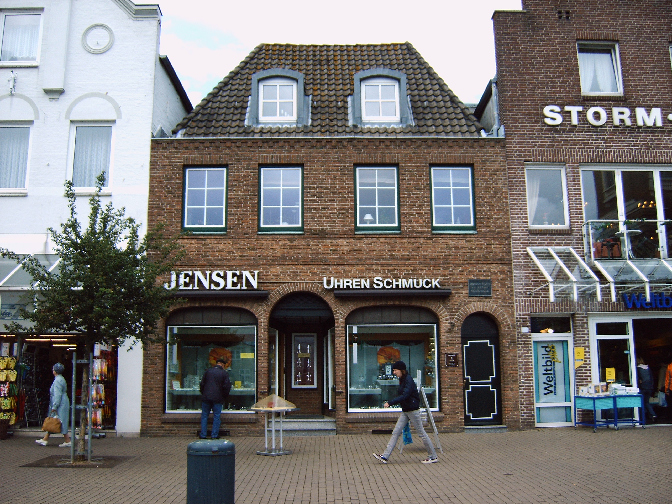 Birthplace of Theodor Storm, Markt 9 in Husum